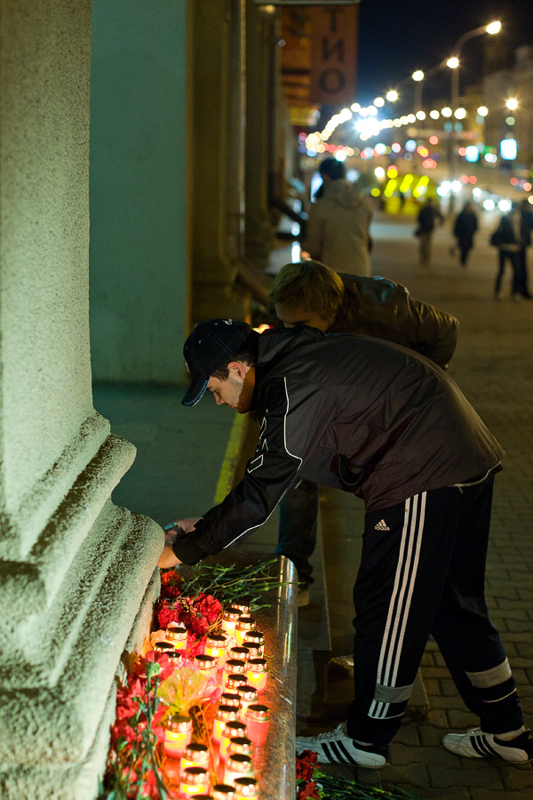 People commemorate the victims of 2011 deadly bomb blast in Minsk metro.